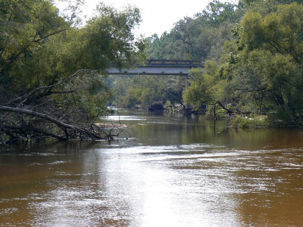 Looking SW at Old Bainbridge Rd crossing Ochlockonee River, Leon/Gadsden Cos., Florida, USA